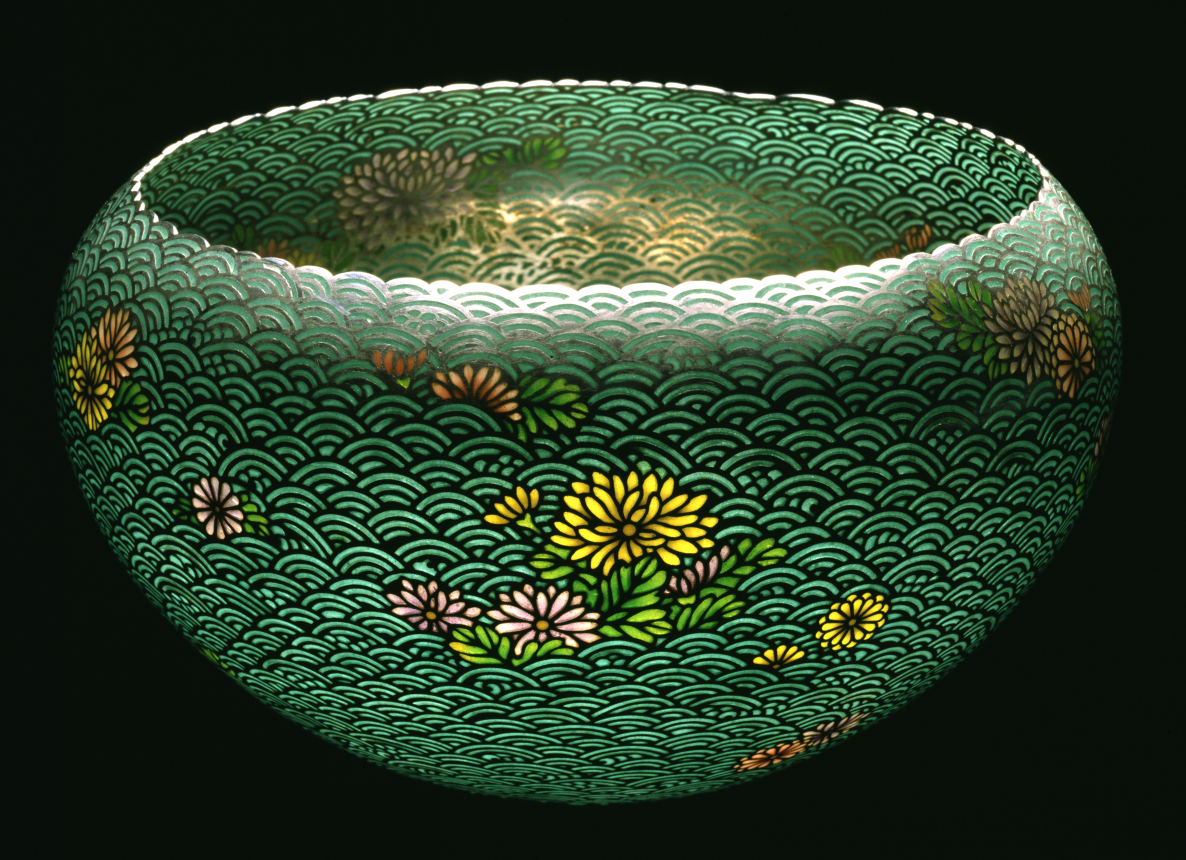 This bowl exhibits plique-a-jour enamelling on a silver base. The silver has been cut into a pattern of stylized waves with floating chrysanthmum blossoms.